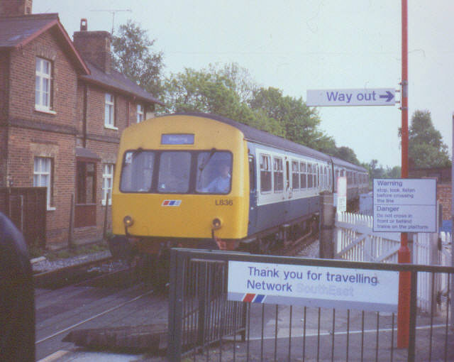 Network SouthEast signage and an old BR Blue DMU at Farnborough North railway station